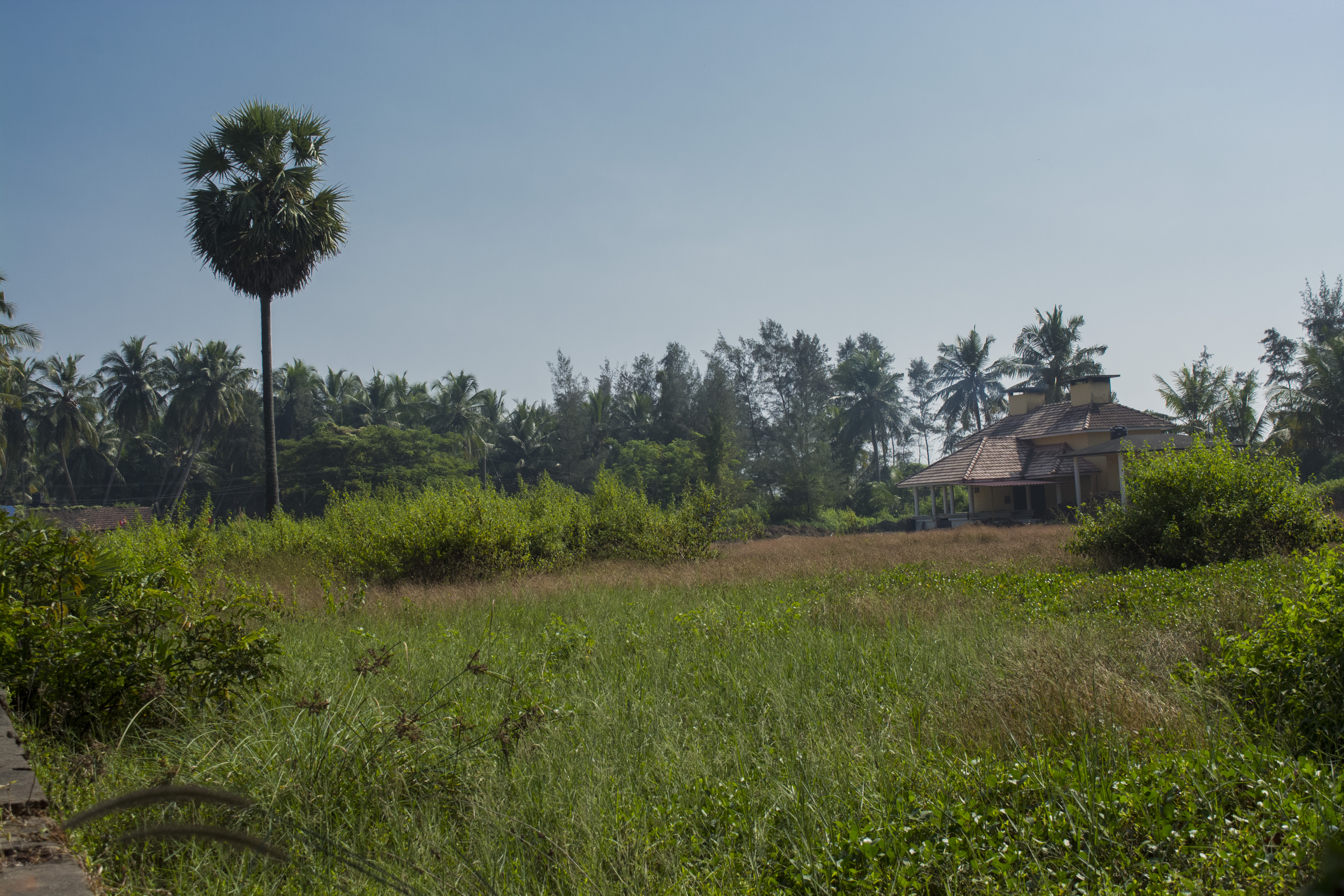 public crematorium located in Muzhappilanagad, a village in kerala